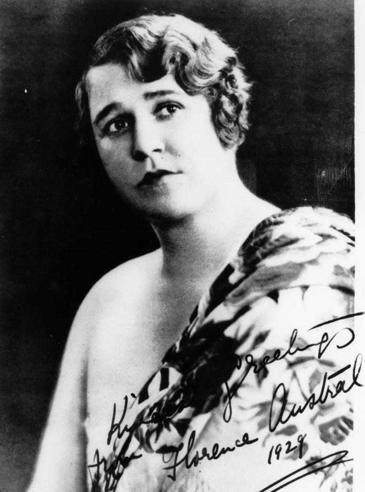 Florence Austral, opera singer, 1929. Autographed photograph of Florence Austral. Florence Austral was born Mary Wilson at Richmond, Victoria, on 16 April 1892. She was also known by her stepfather's name of Fawaz, before adopting the name of her country as a stage name prior to her debut in 1922 at Covent Garden. Known as one of the world's greatest Wagnerian sopranos, Florence Mary Austral, married the Australian virtuoso flautist John Amadio in 1925 and toured widely with him in America and Australia.